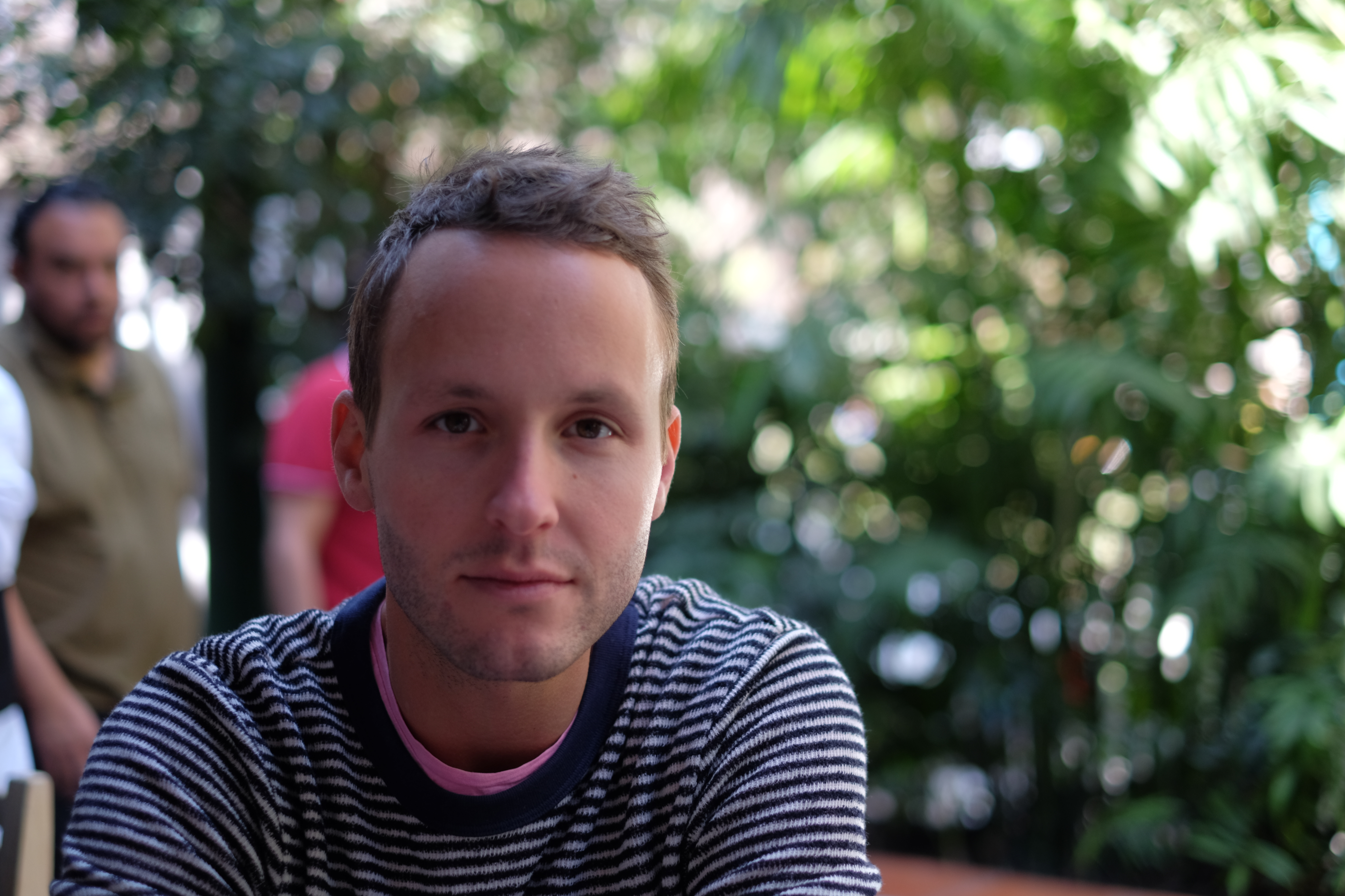 Josh Abramson, 2015.